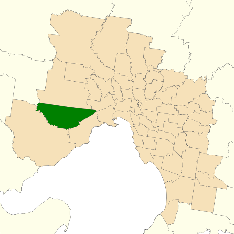 Location of the Victorian electoral district of Tarneit (dark green) in the Greater Melbourne area.